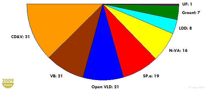 Inaugural seat division of the Flemish Parliament in 2009